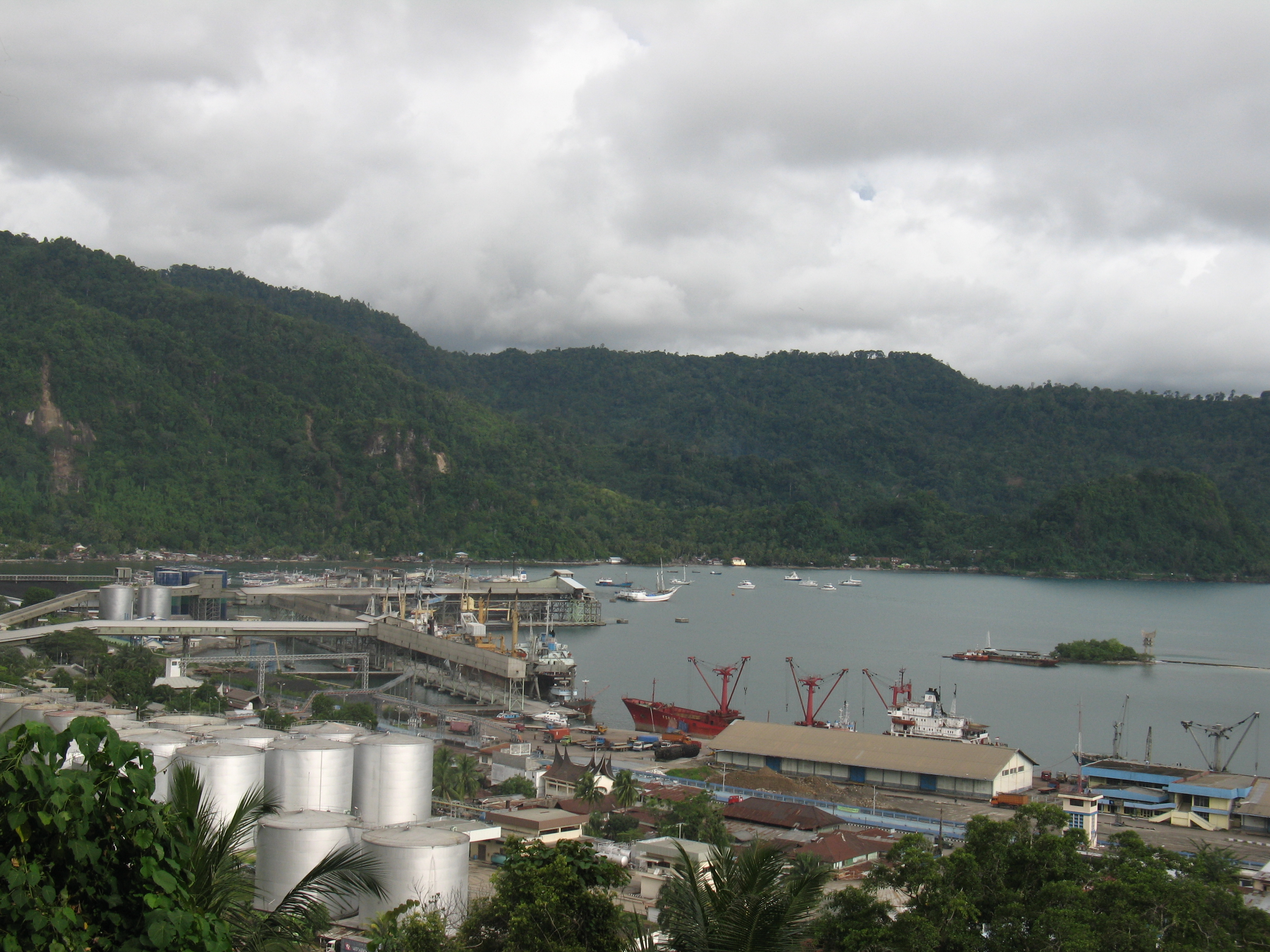 A portrait of Telukbayur Harbour, Padang, West Sumatra